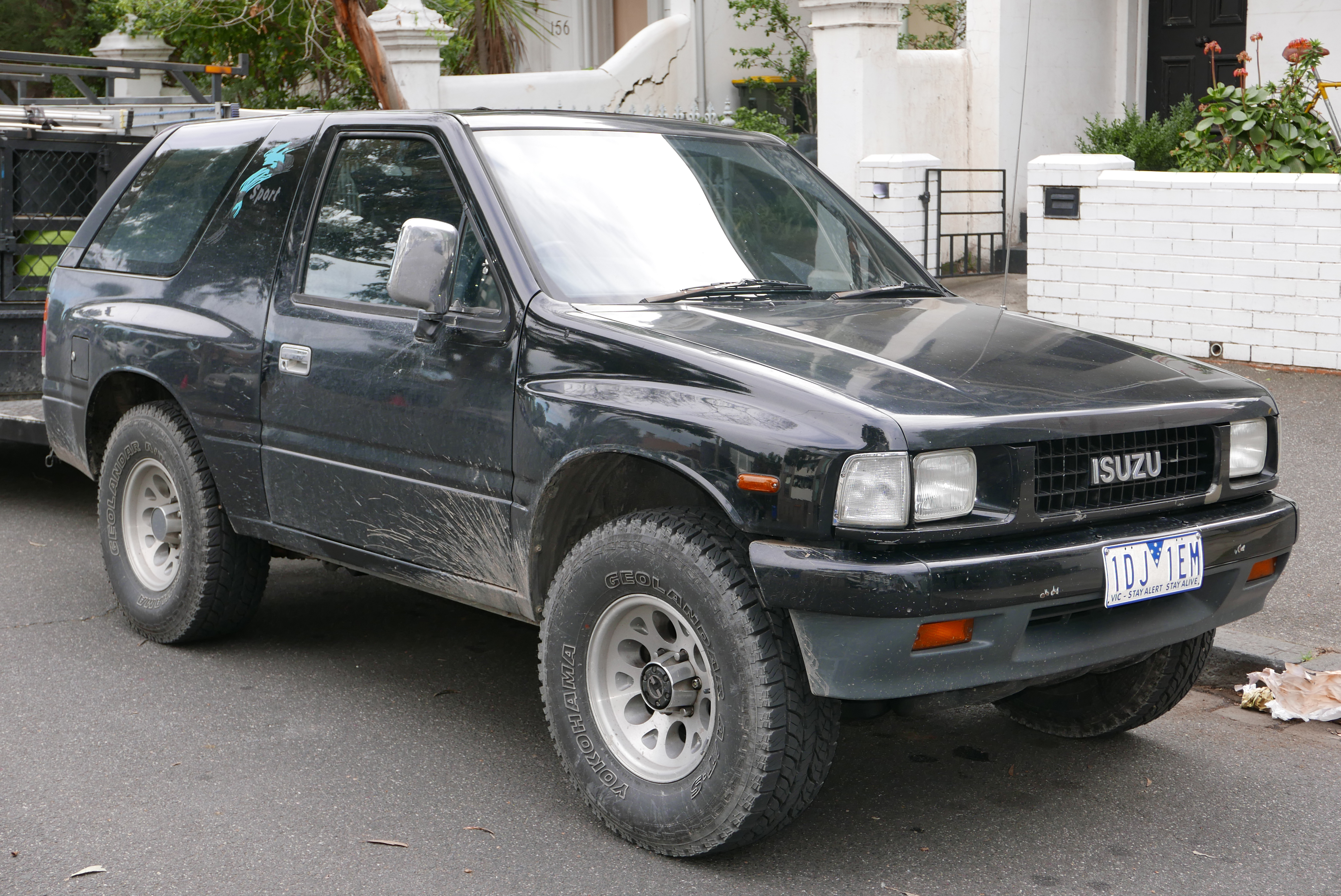 1989–1992 Isuzu MU (UCS55) hardtop. Despite the date discrepancy with the vehicle registration information below, the front styling is representative of a 1989–1992 Isuzu MU but not one from 1993. This is a grey import from Japan, complianced for Australia in September 2000. Photographed in West Melbourne, Victoria, Australia. Vehicle registration enquiry results Jurisdiction Victoria Registration 1DJ1EM Chassis code 6T91MPV97Y2BEP034 Engine code 4JB1394948 Compliance date 2000-09 Year of manufacture 1993